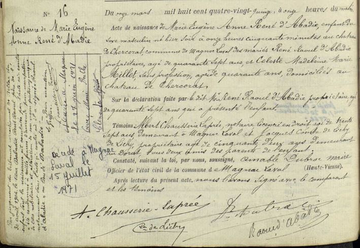 Marie Eugène Anne René d'Abadie (1895-1971)